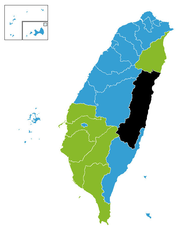 The party affiliation of the municipal mayors, county magistrates and city mayors as at February 2010, of the Republic of China.